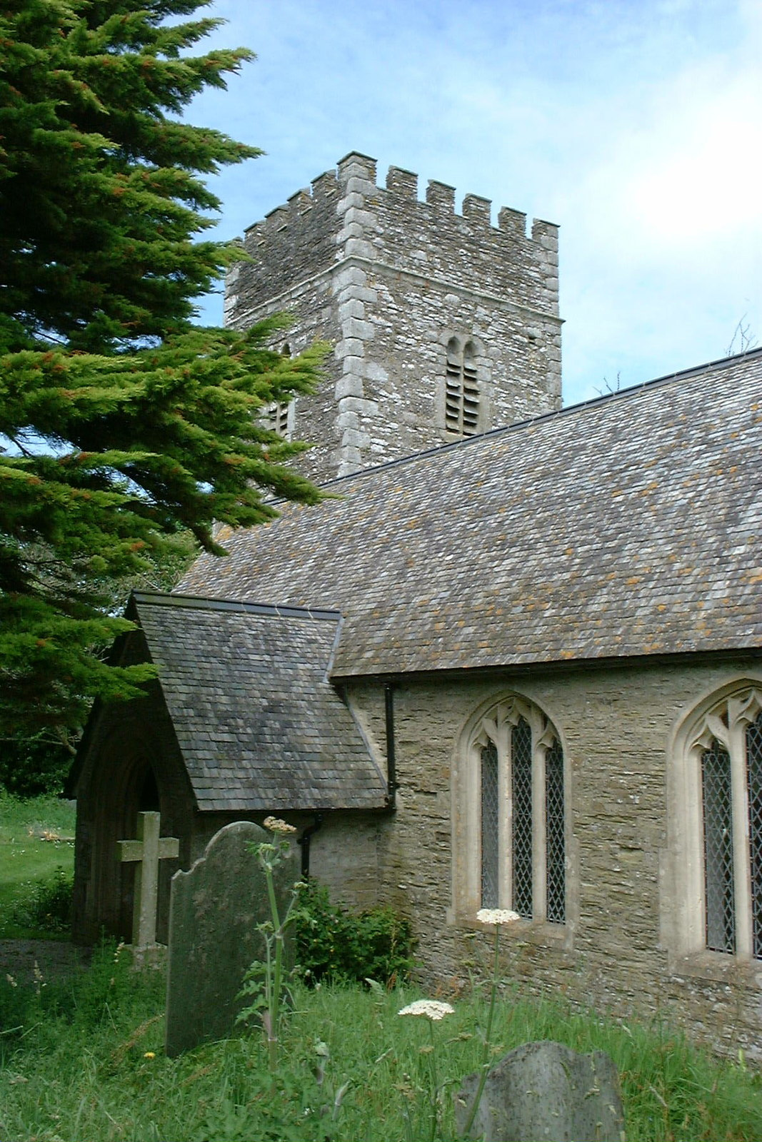 St Felix church, Philleigh, Cornwall. A grade I listed building.